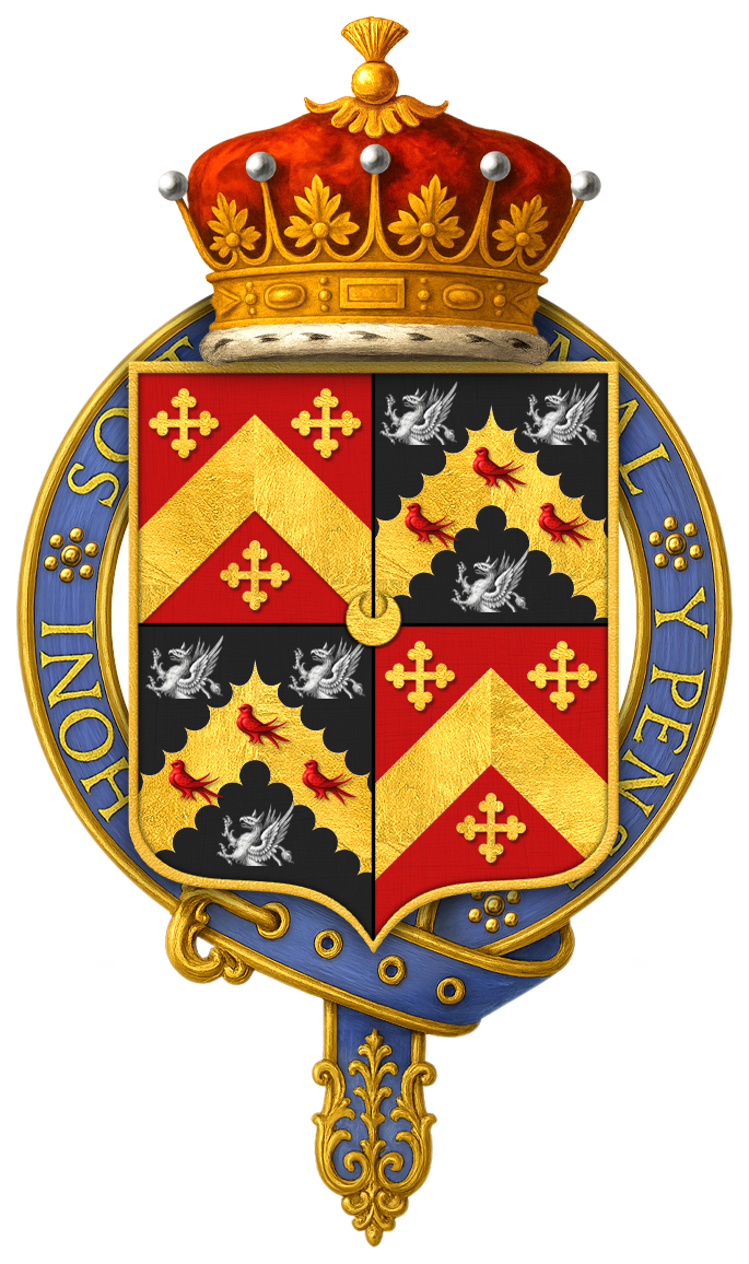 Quartered arms of Sir Henry Rich, 1st Earl of Holland, KG: Gules, a chevron between three crosses botonée or (Rich) quartering Sable on a Chevron engrailed or between three demi-griffins segreant ermine as many martlets gules (Baldry)